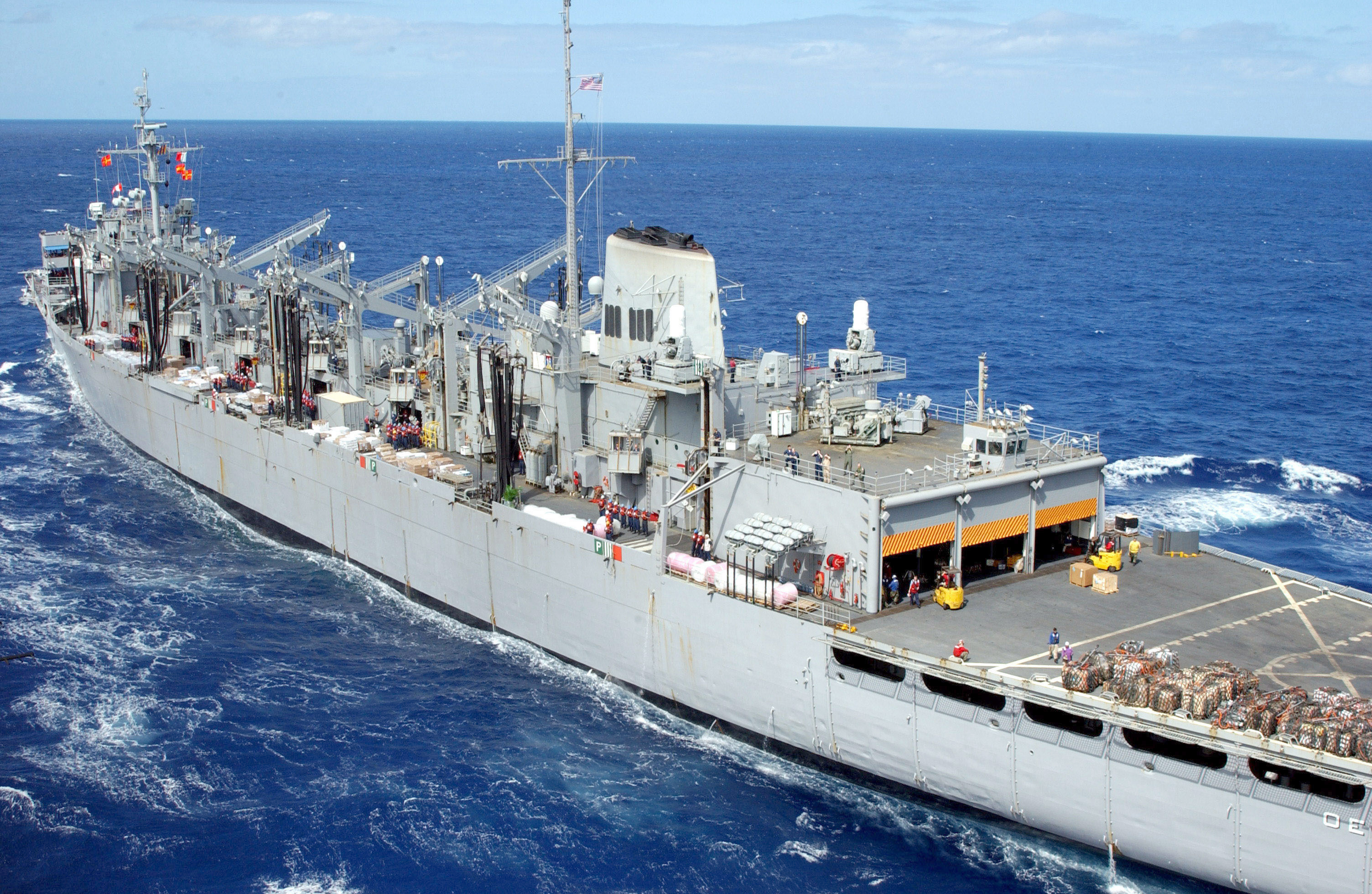 Pacific Ocean (Feb. 10, 2003) - The fast combat support ship USS Sacramento (AOE 1) readies five replenishment stations, one fueling station and a flight deck full of cargo in preparation for conducting an underway replenishment and vertical replenishment with USS Carl Vinson (CVN 70). The Sacramento is part of the Carl Vinson Battle Group currently underway conducting operations in the Pacific Ocean. U.S. Navy photo by Photographer's Mate 3rd Class Ryan Jackson (RELEASED)